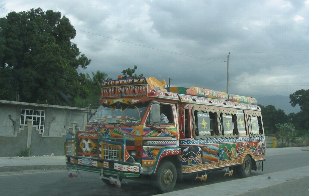 Haitian intercity bus